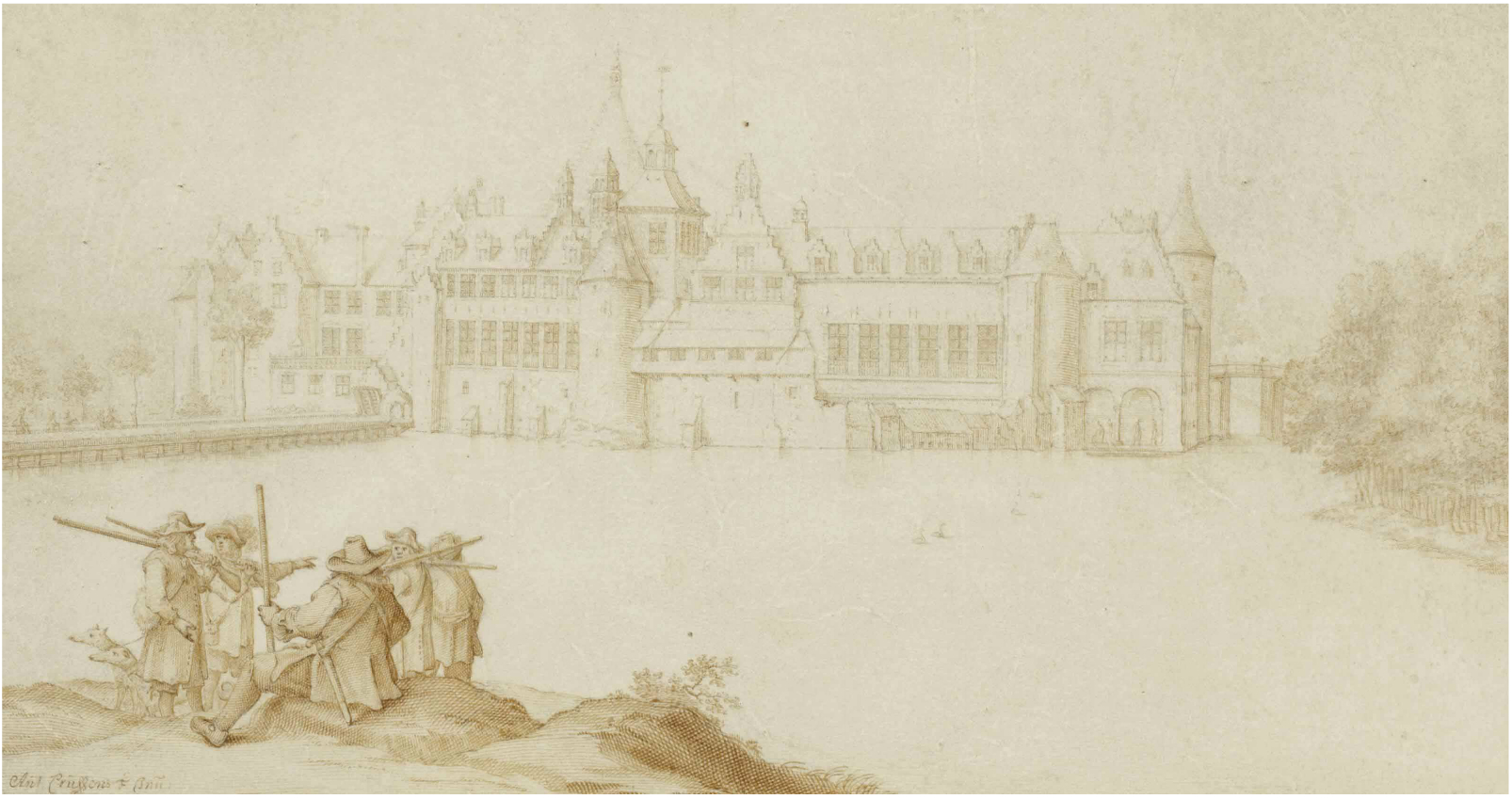 Hunters resting on the board of a river in front of Tervuren Castle near Brussels